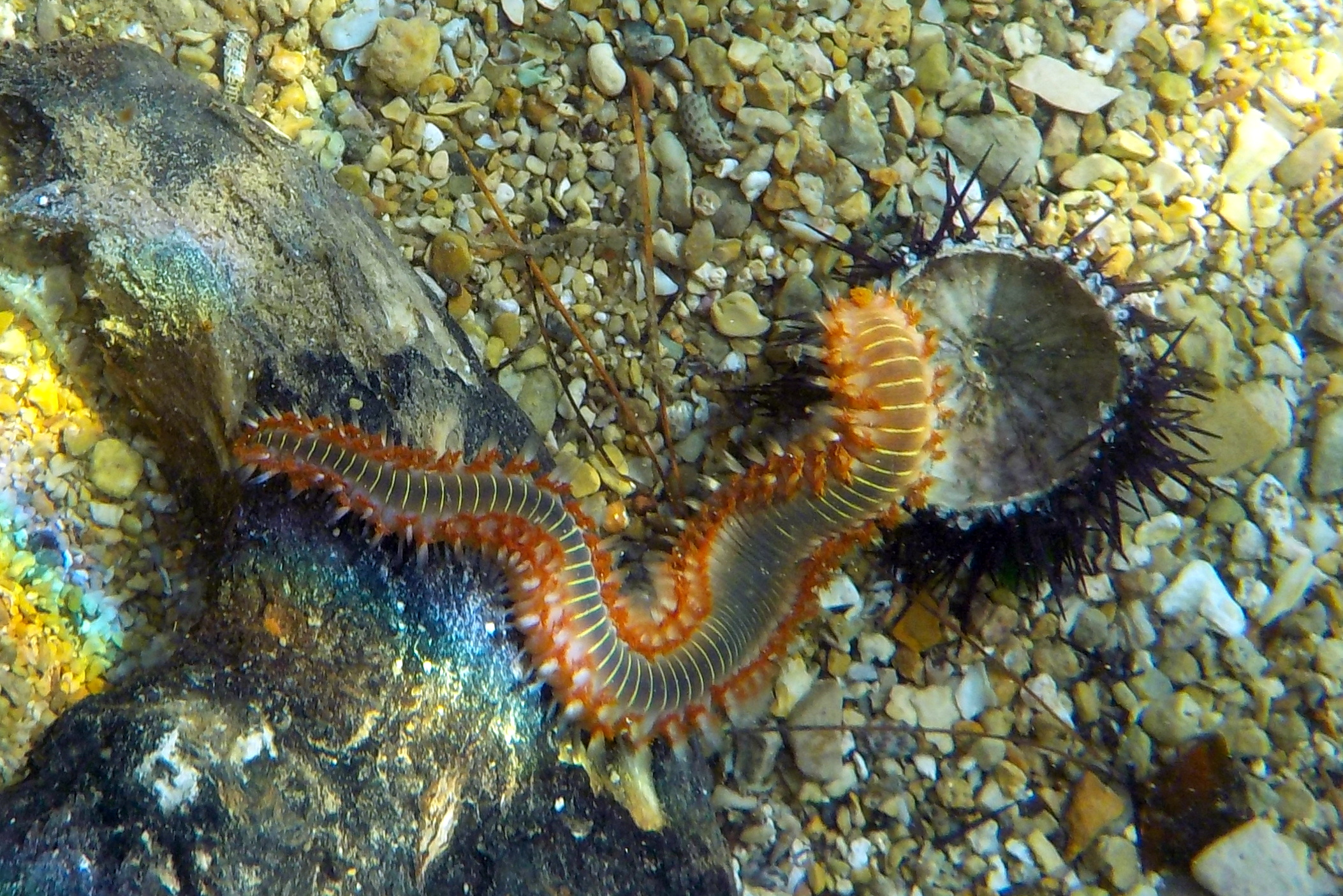 Hermodice carunculata feeding on Arbacia lixula in Alonissos (Northern Sporades)